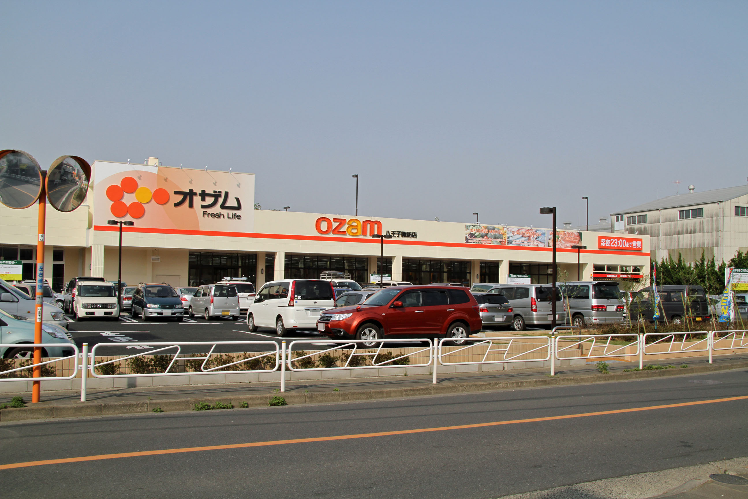 Ozam Lare Hachioji Suwa